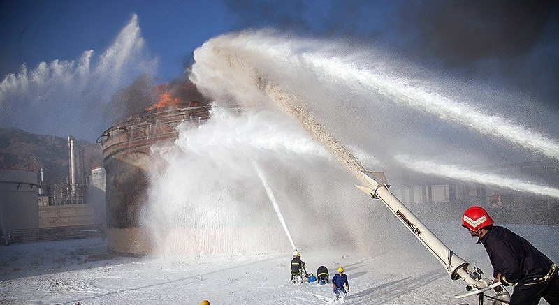 Fire at the Bistoon Petrochemical Powerhouse